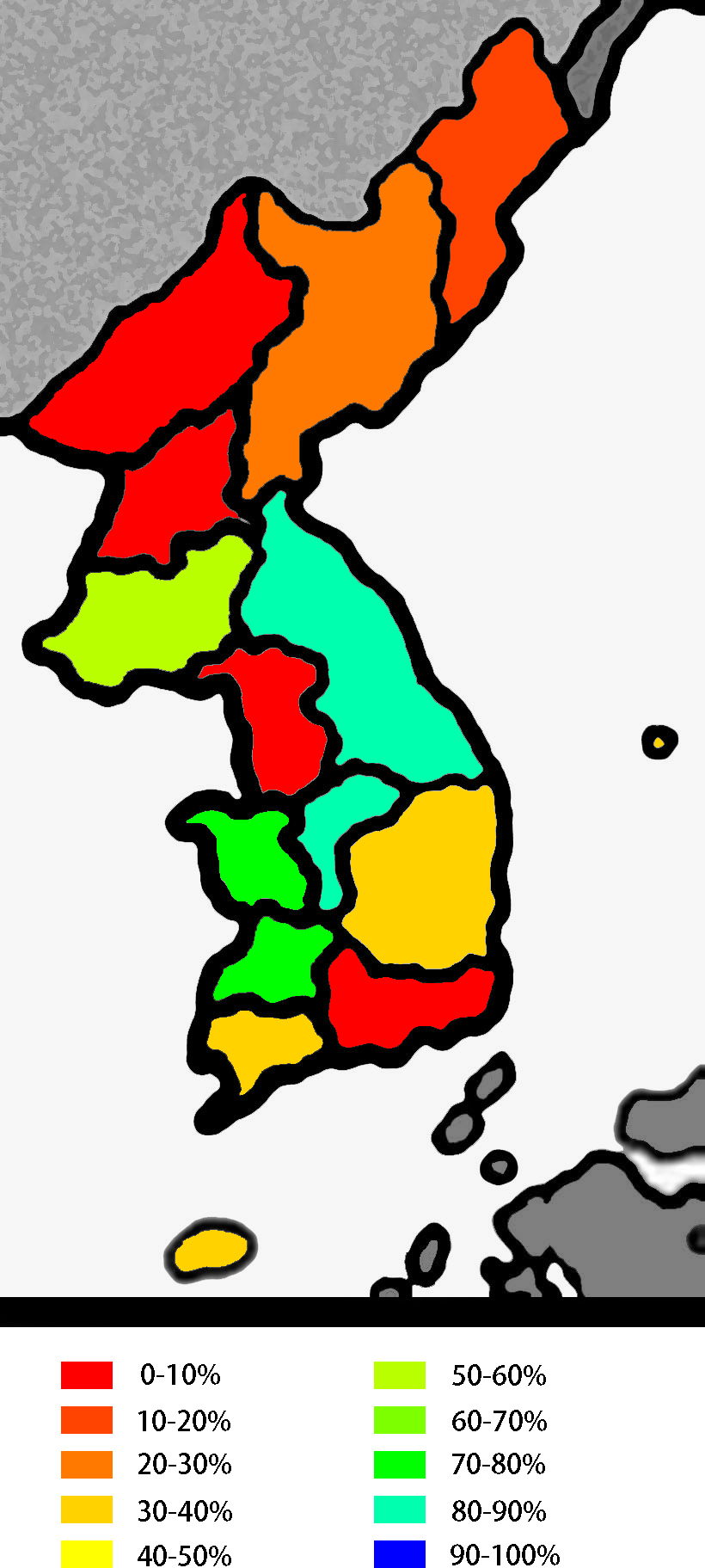 Statistical map of colonial Korea, regarding the percentage of Koreans appointed as provincial governors.